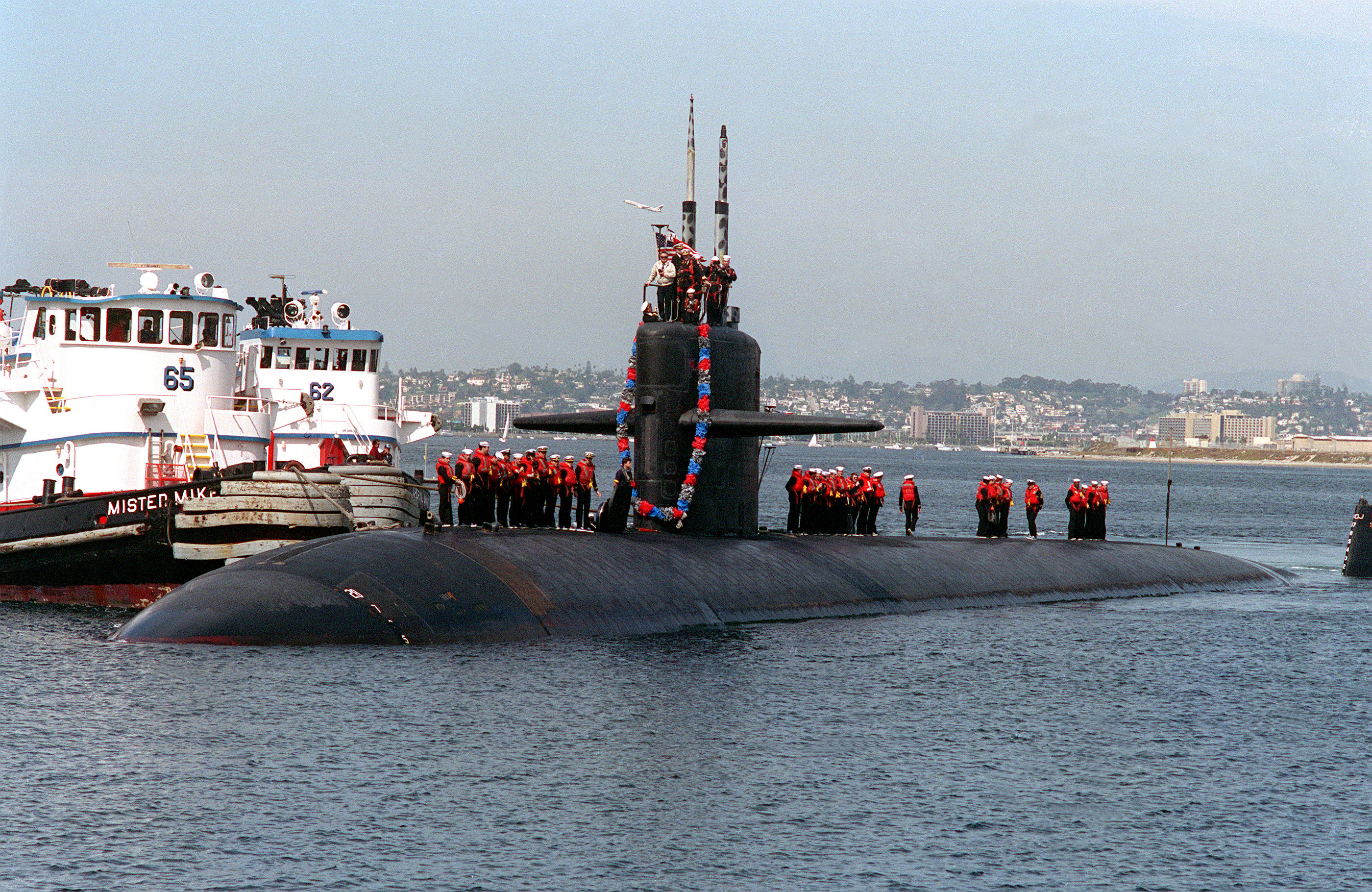 Two commercial tug boats push on the bow of the nuclear-powered attack submarine USS CHICAGO (SSN-721) as the submarine is moved closer to the pier. The CHICAGO is returning to San Diego following its deployment to the Persian Gulf region for Operation Desert Storm. Location: NAVAL SUBMARINE BASE, SAN DIEGO, CALIFORNIA (CA) UNITED STATES OF AMERICA (USA)